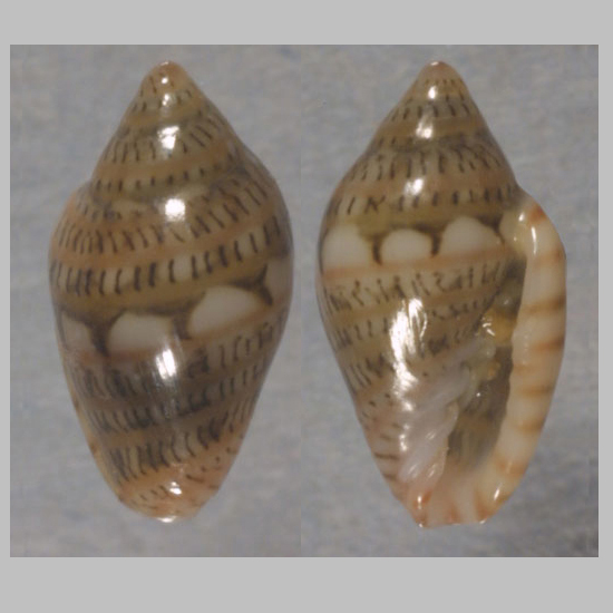 Species: Marginella simulata Gofas & Fernandes, 1994 Specimen: Luis Ferreira collection data:by diving at 3m Praia Amelia, Namibe. Angola L 6,2mm collector: Francisco Fernandes 05/09/1990